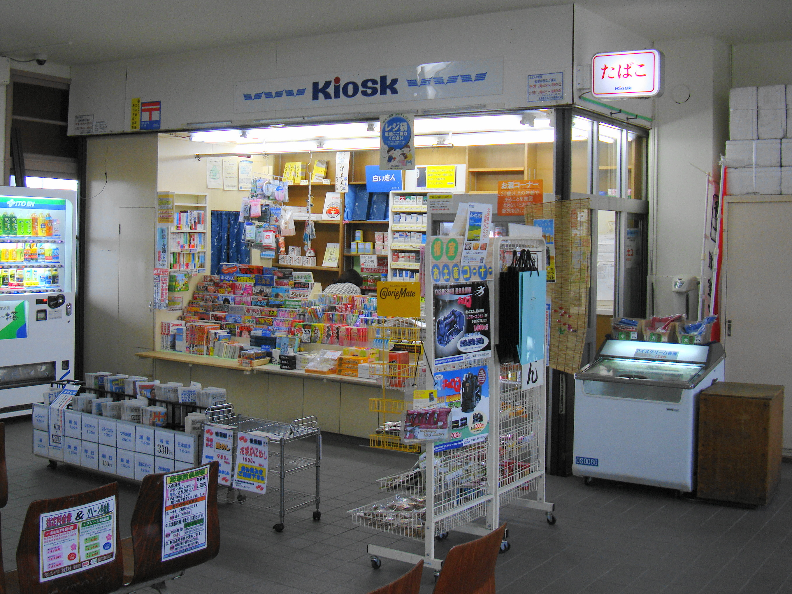 Hokkaidō Kiosk Nemuro Station